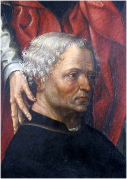 Andries Boelens Mayor of Amsterdam. Part of The birth of Christ, Napels, Museo Nazionale di Capodimonte